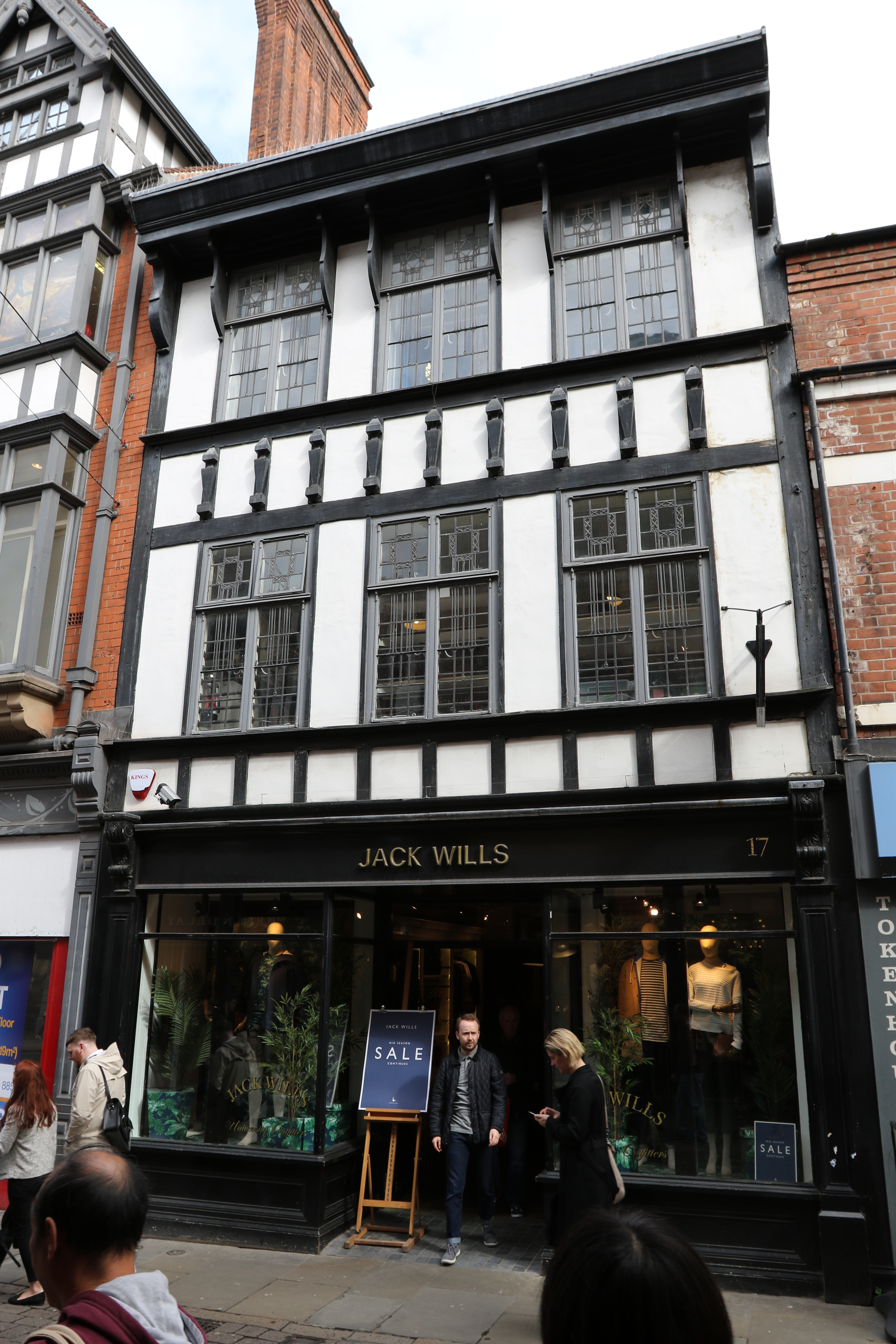 Timber fronted shop and offices by John Lamb 1911